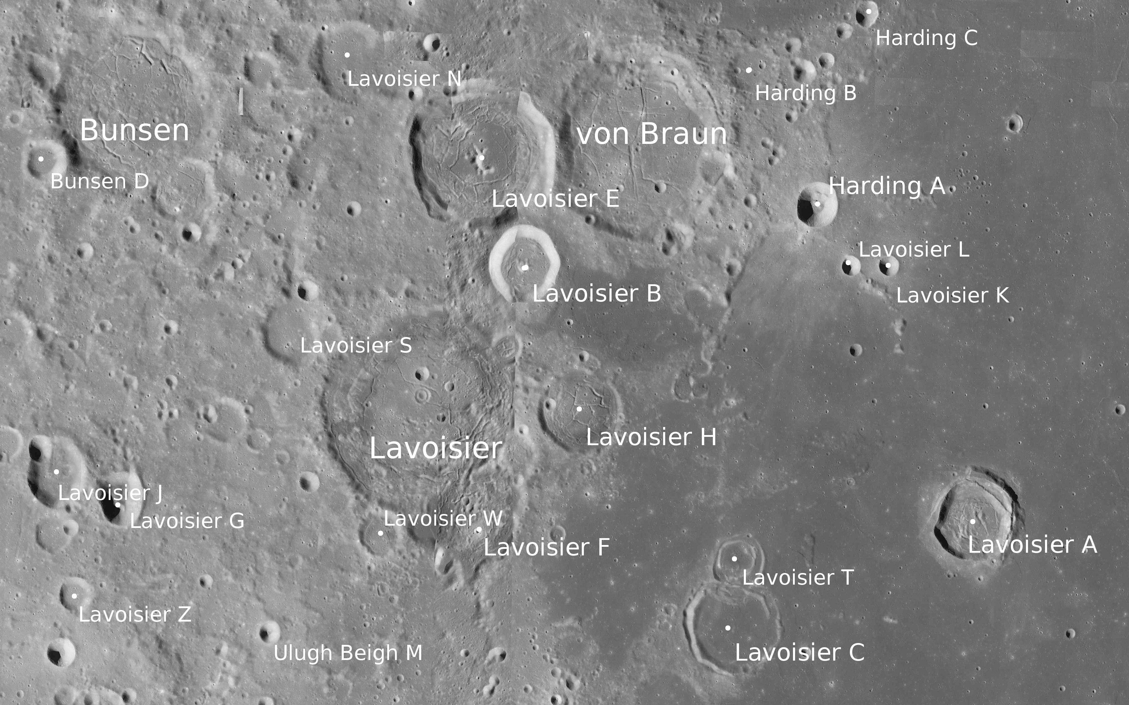 Craters Lavoisier and Bunsen with satellite features (detail of LRO - WAC global moon mosaic; Mercator projection)